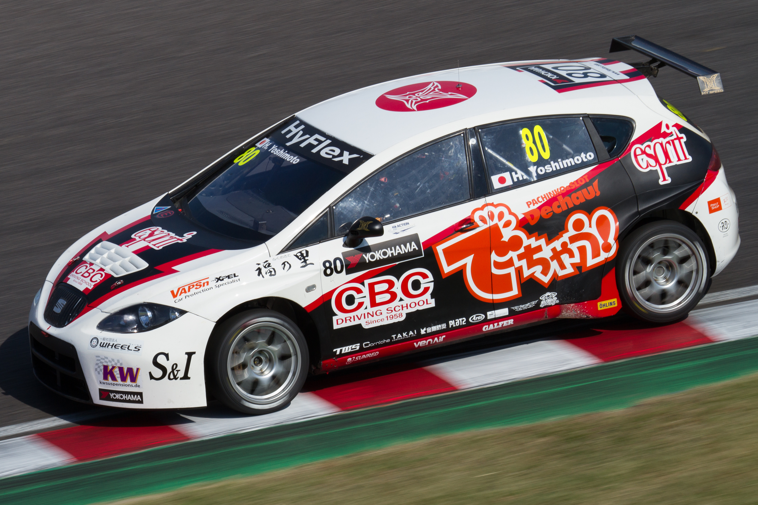 World Touring Car Championship 2012 Race of Japan: Hiroki Yoshimoto (Tuenti Racing Team) driving the SEAT Leon WTCC